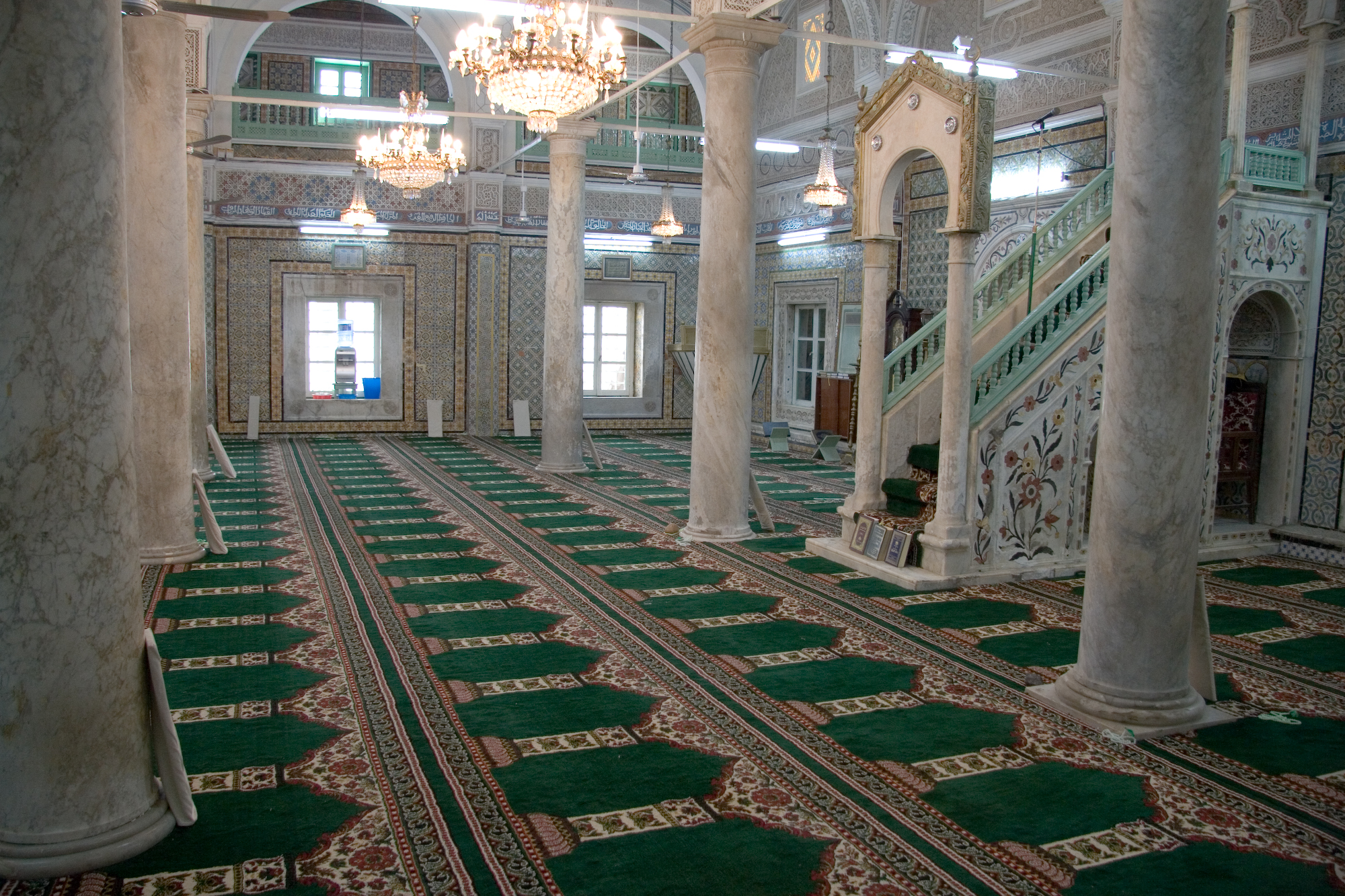 Mosque of Mustafa Gurji Pasha — in Tripoli, Libya. Mustafa Gurji was a Tripoli Naval Captain.